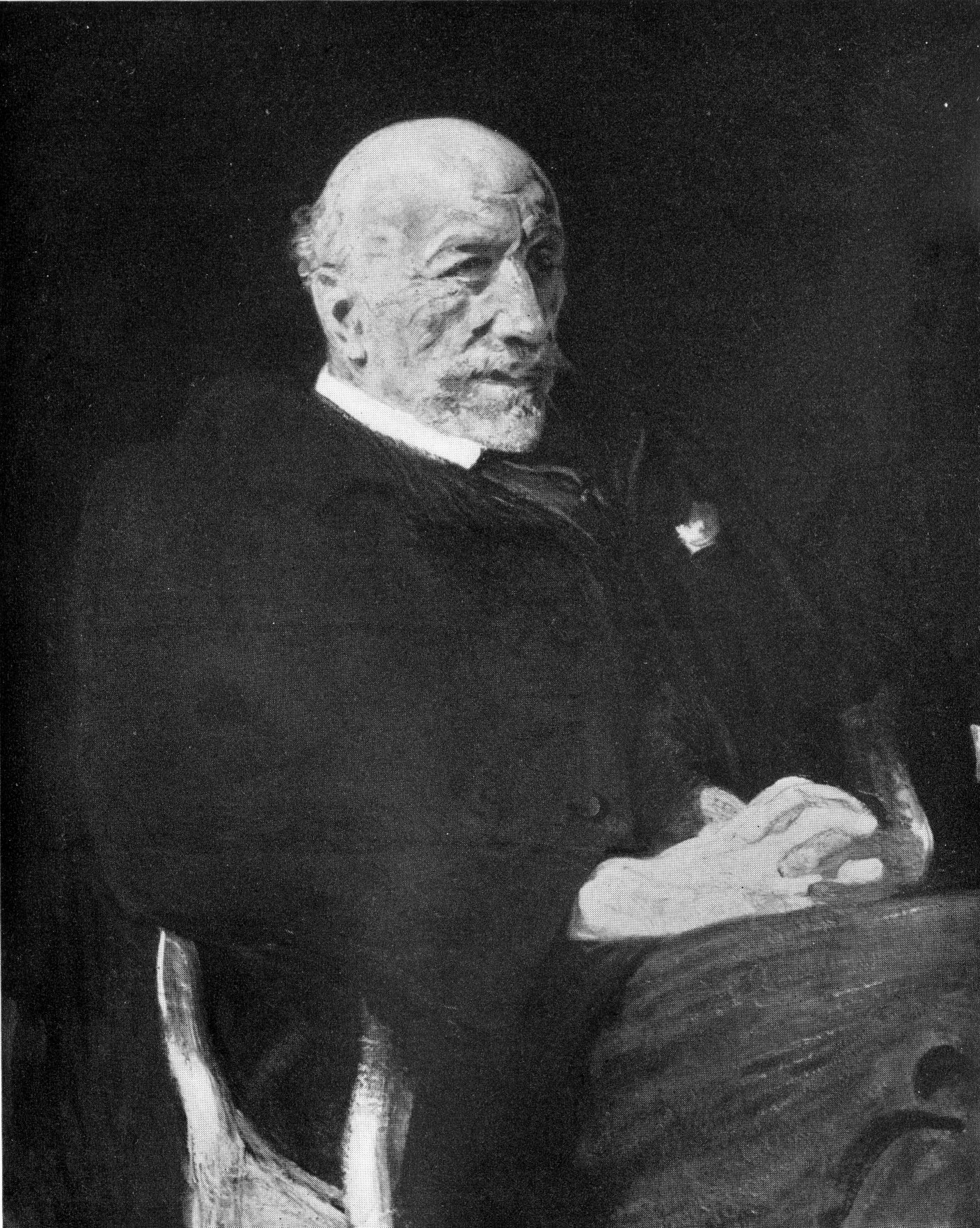 Carl Justi (1832-1912); 1912; 100:80 cm